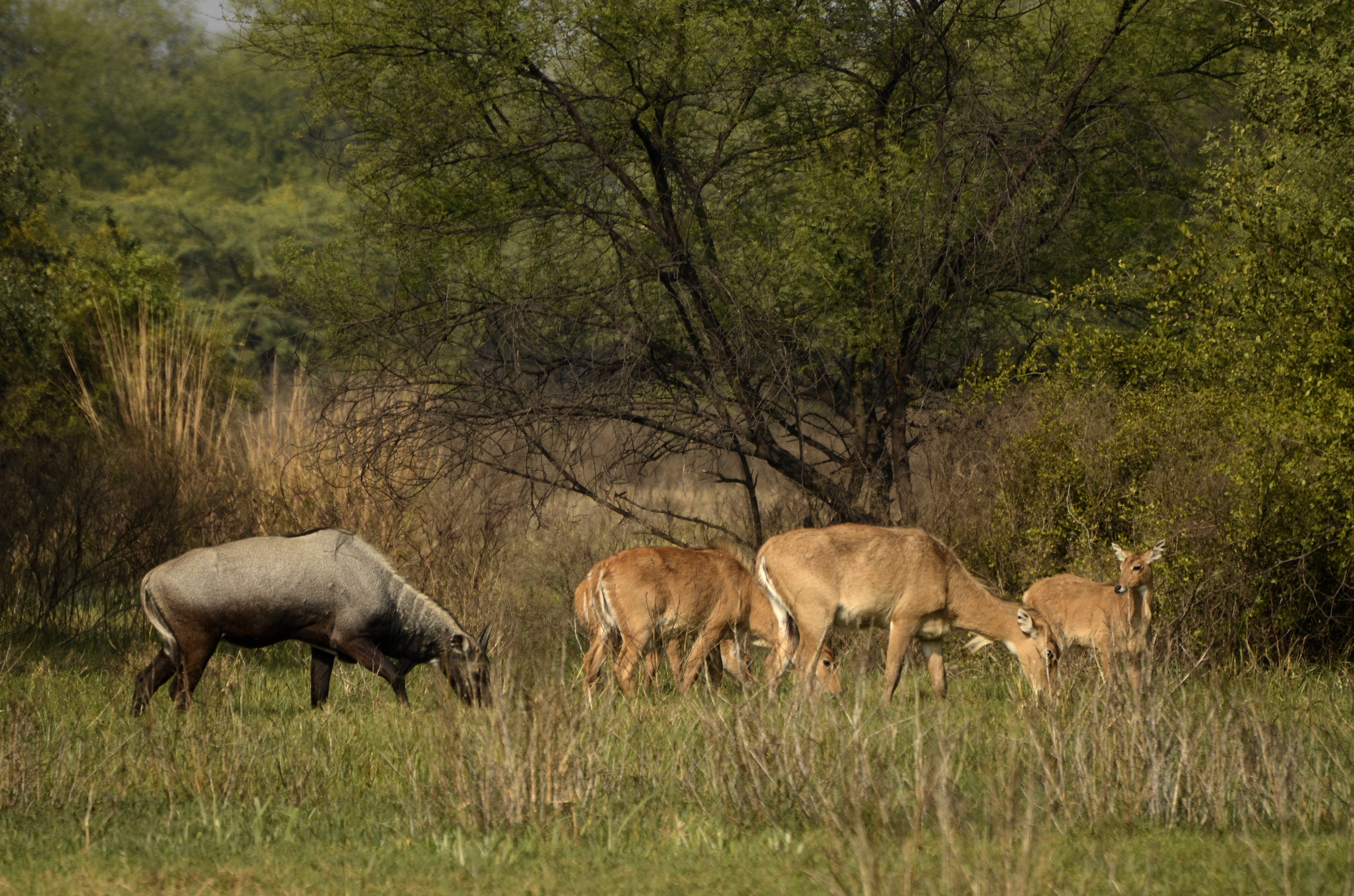 Nilgai or blue bull (Boselaphus tragocamelus)_male and female_from keoladeo national park1